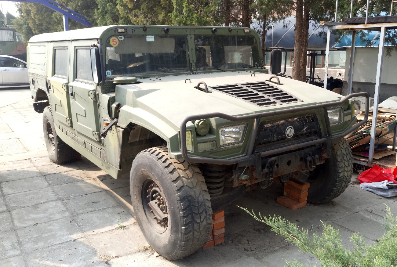 Dongfeng EQ2050 photographed in Beijing, China.